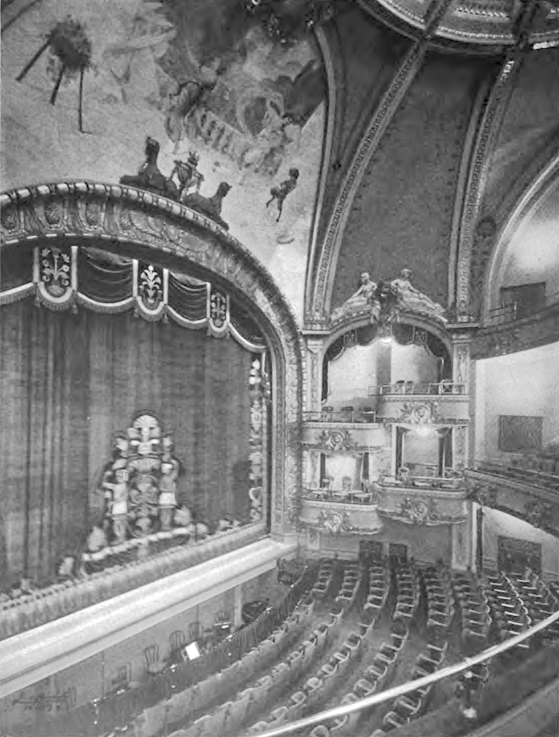 Interior of Eltinge 42nd Street Theatre